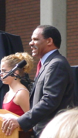 Mike Garrett at the 2003 awards presentation at USC in February